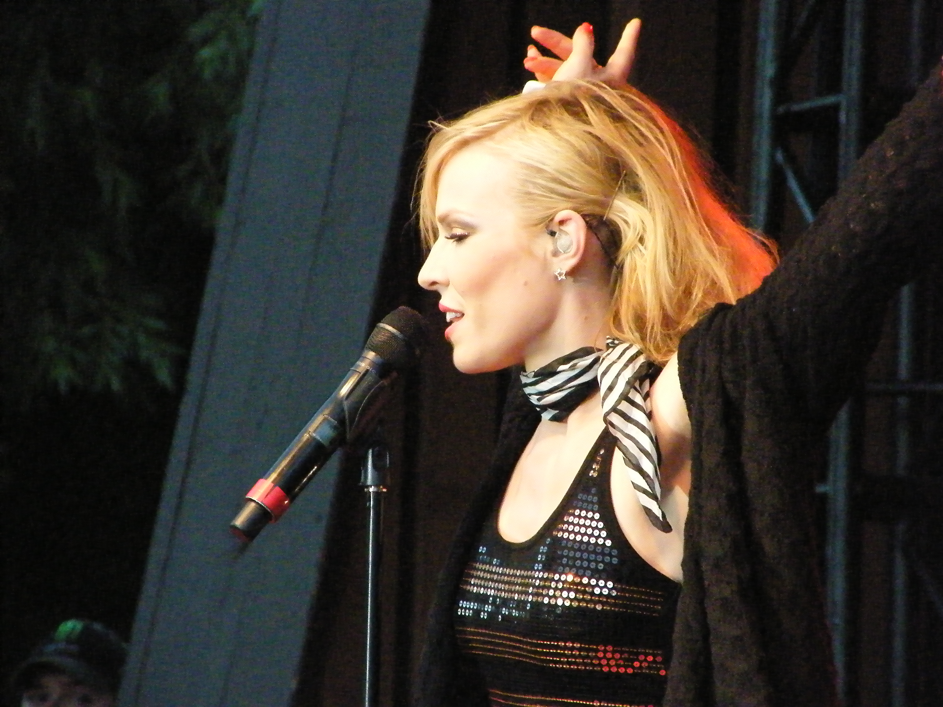 Natasha Bedingfield at the 2008 Calgary Stampede.